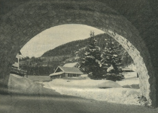 bobsleigh and luge run Arosa, Switzerland, 3rd viaduct (of new Chur-Arosa railway)